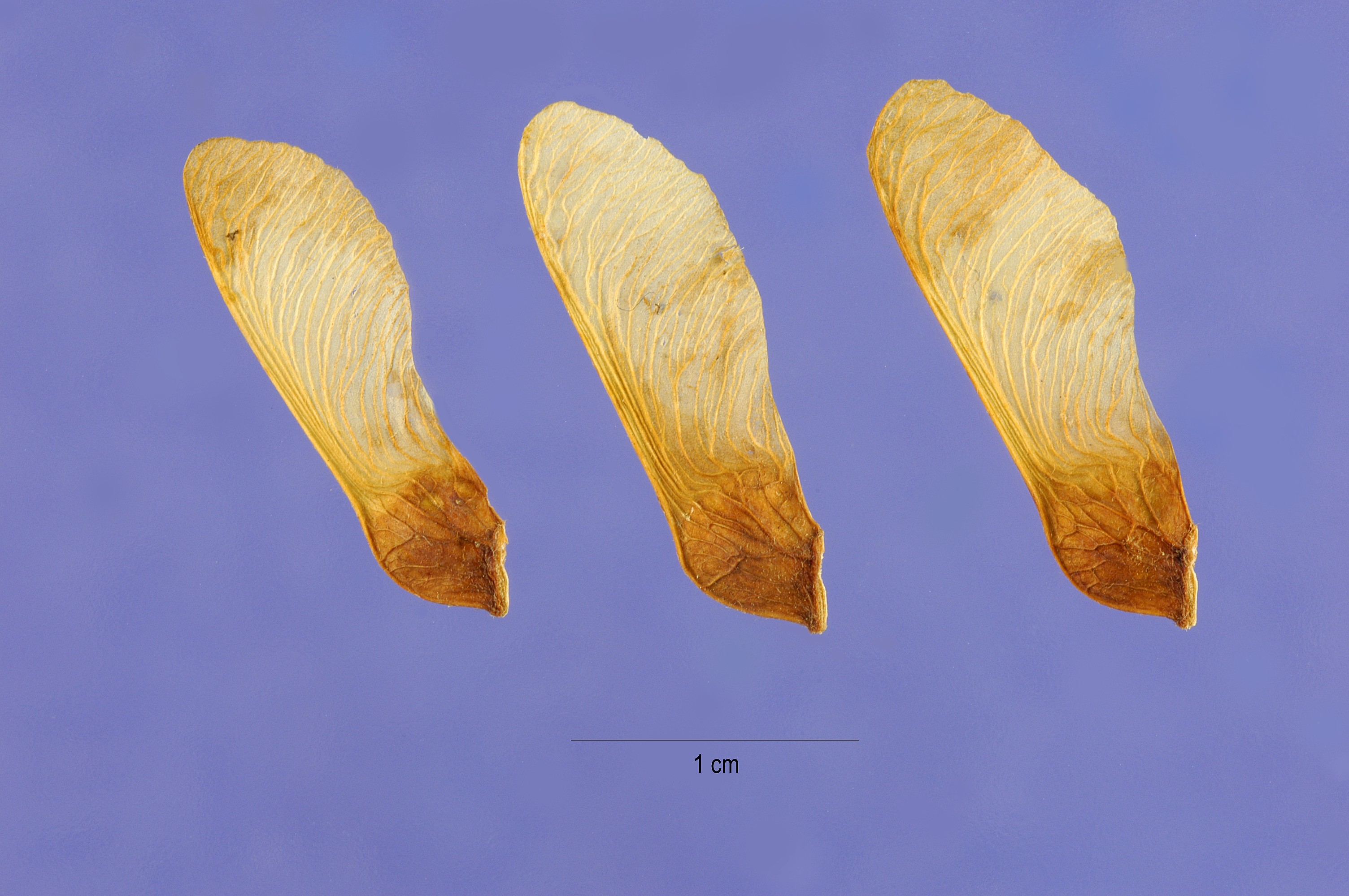 Mountain Maple. Seeds.